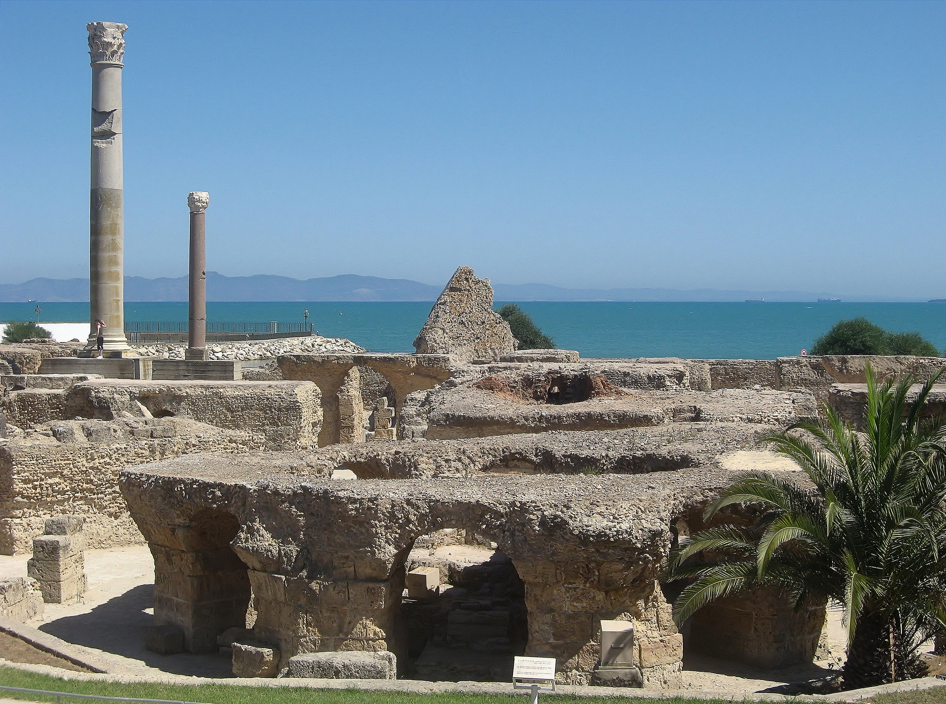 Ruins of Carthage